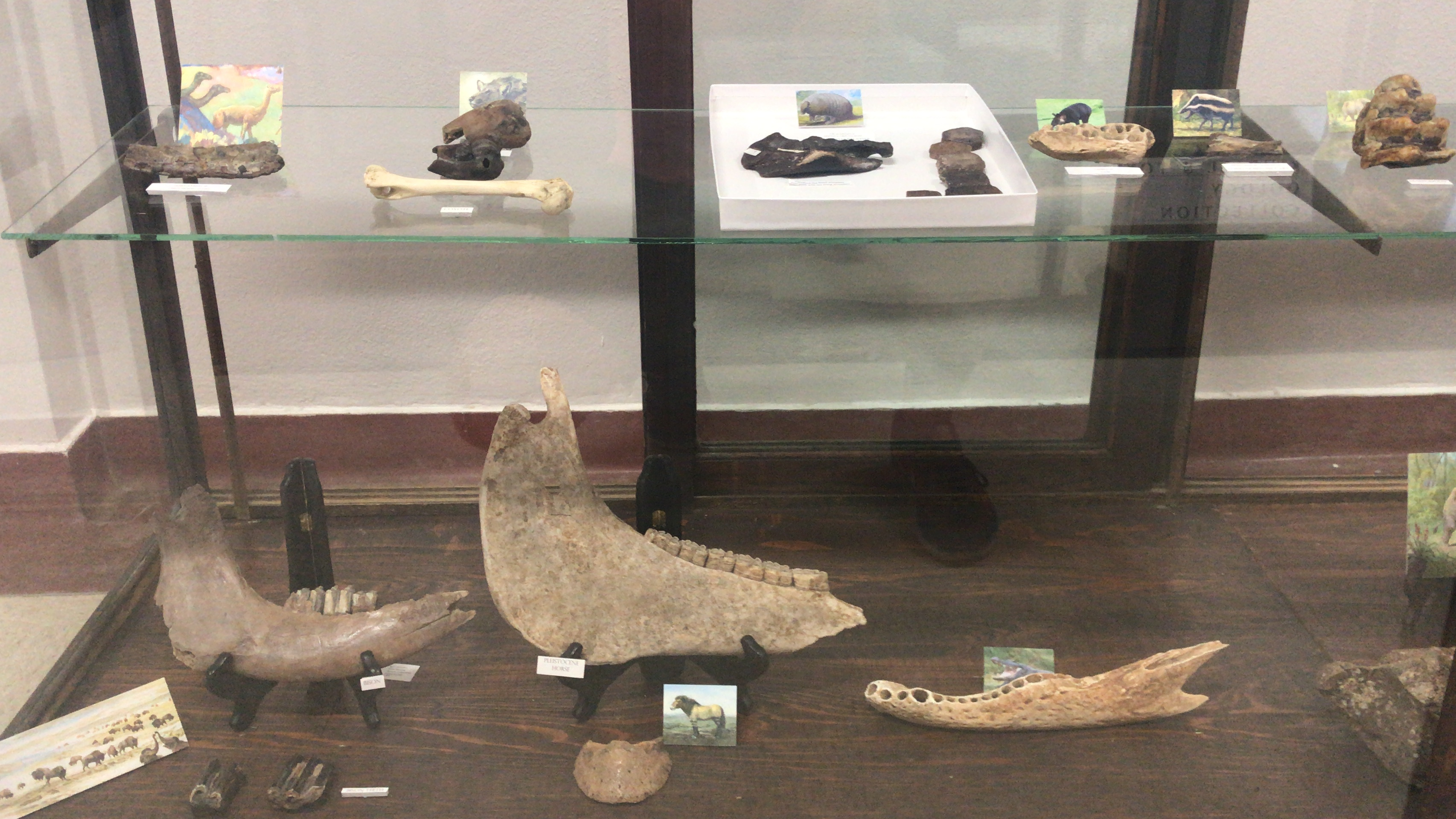 Fossil exhibit at Sam Houston State University